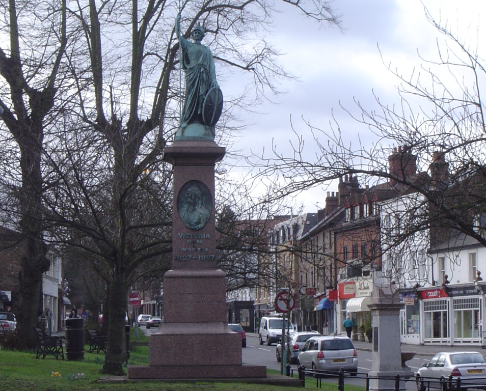 Statue for Queen Victoria's Diamond Jubilee in Esher, Surrey, England